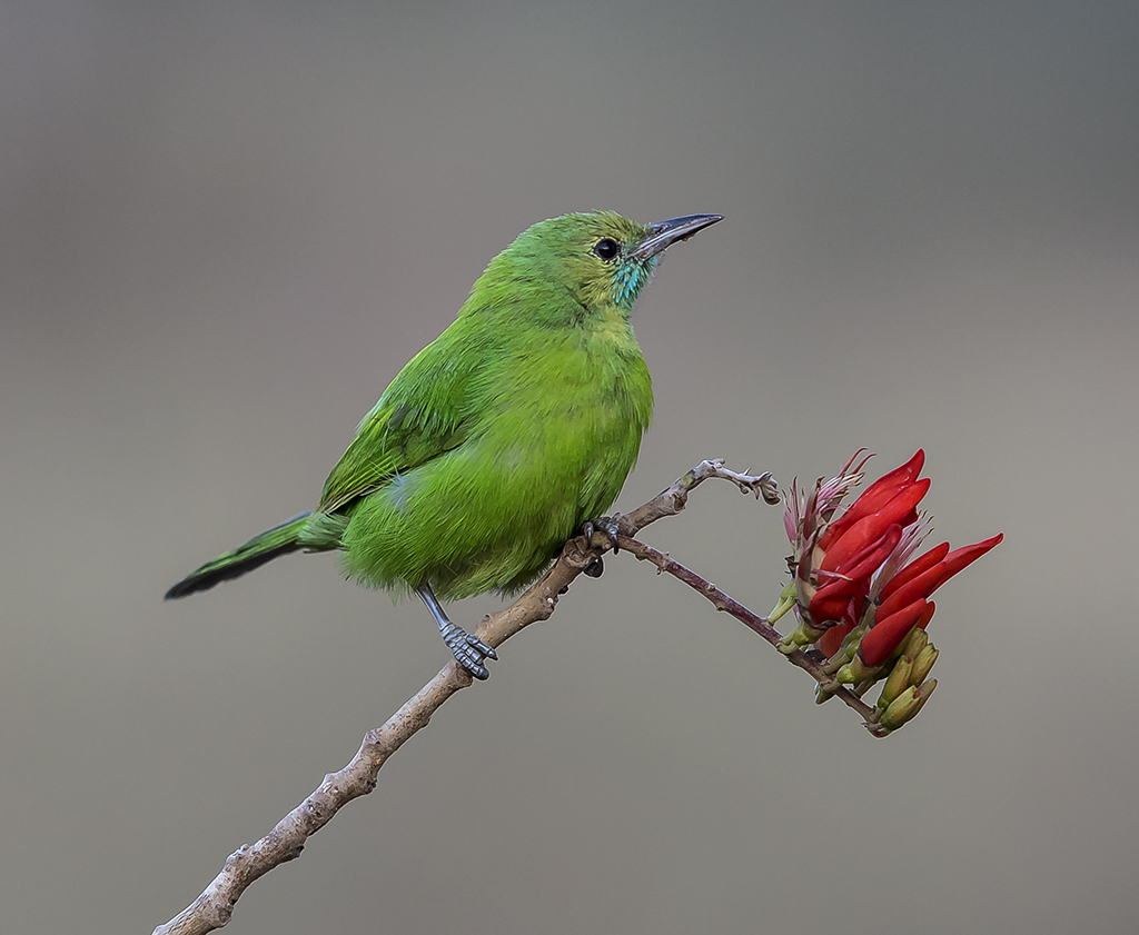 Golden-fronted Chloropsis (Chloropsis aurifron) is resident of the Himalayas and Western Ghats of India. Female specimen Bangalore, Feb 2015